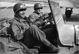 Samuel Goudsmit (right) and Marinus Toepel (left) in a jeep during the ALSOS III mission at the end of World War II in Stadtilm, Thuringia, Germany.